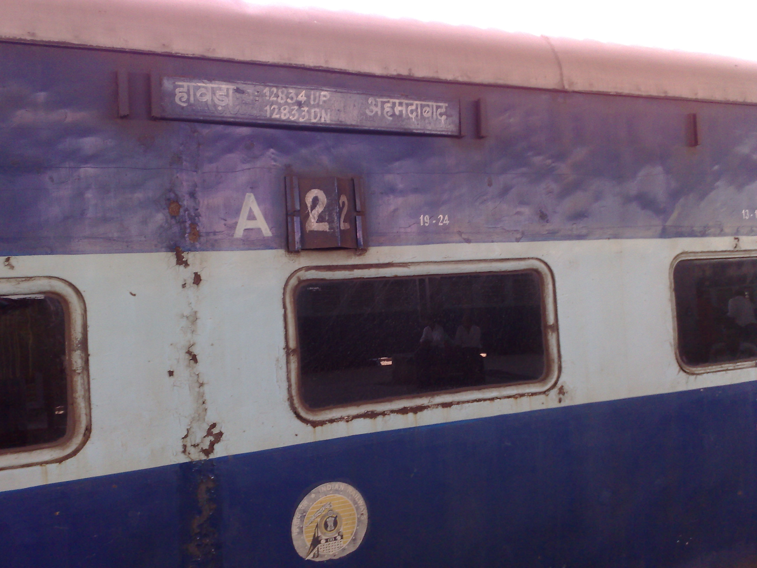 12834 Howrah Ahmedabad Superfast Express - AC 2 tier coach